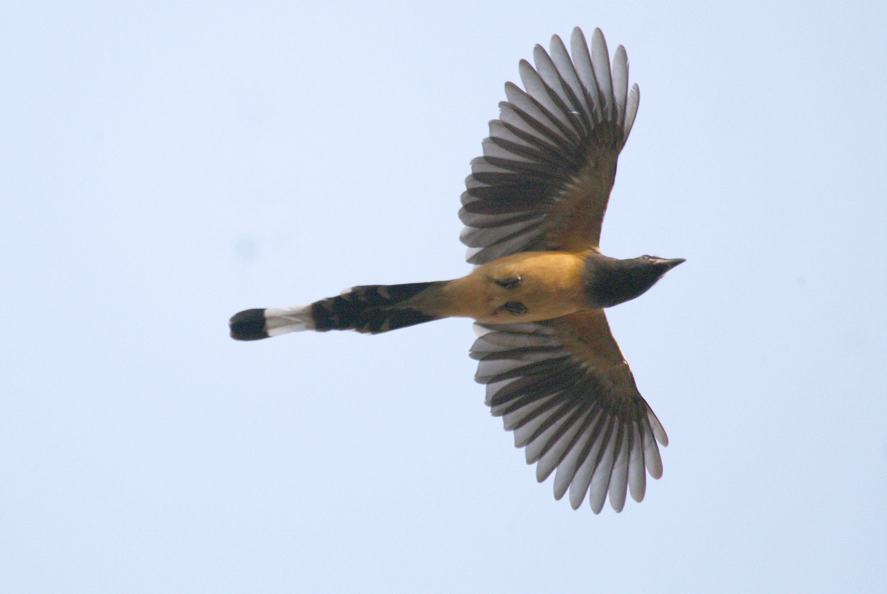 Photo taken by Dr. Raju Kasambe in Kaziranga National Park, Assam, India. Rufous Treepie Dendrocitta vagabunda